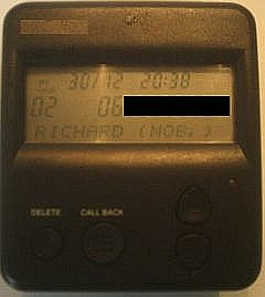 Caller ID